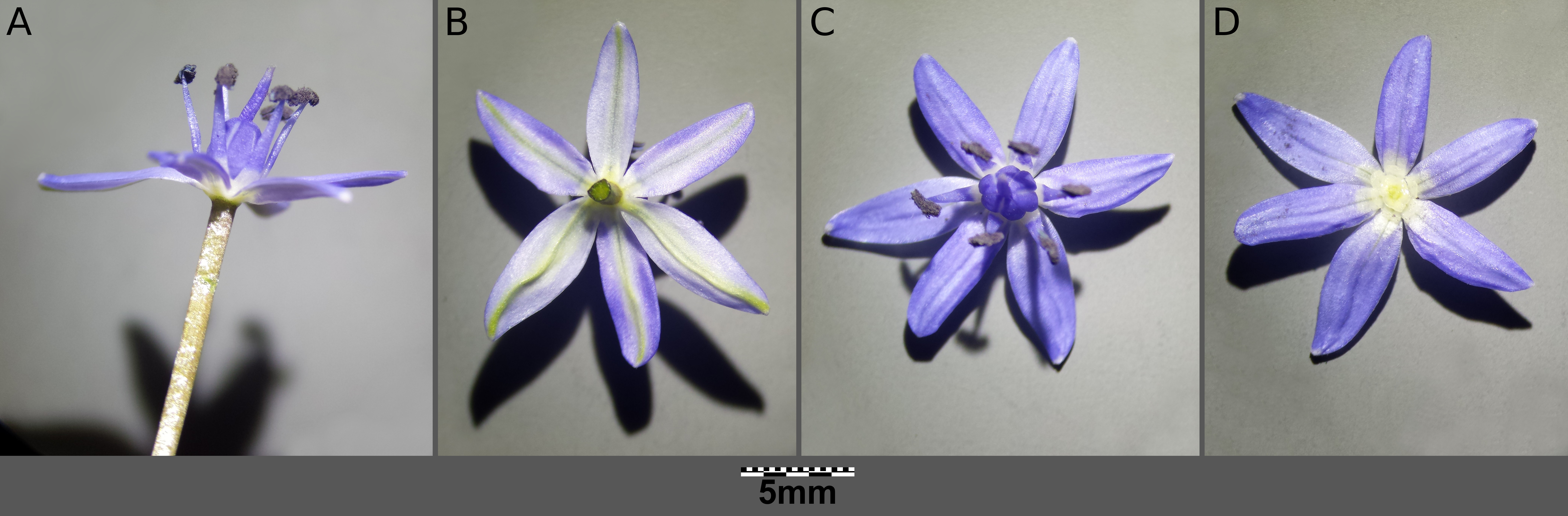 Flower A: side view B: bottom view C: top view D: top view, ovary and stamina removed Taxonym: Scilla vindobonensis ss Fischer et al. EfÖLS 2008 ISBN 978-3-85474-187-9 Location: Rohrwald, district Korneuburg, Lower Austria - ca. 275 m a.s.l. Habitat: border of a wet deciduous forest